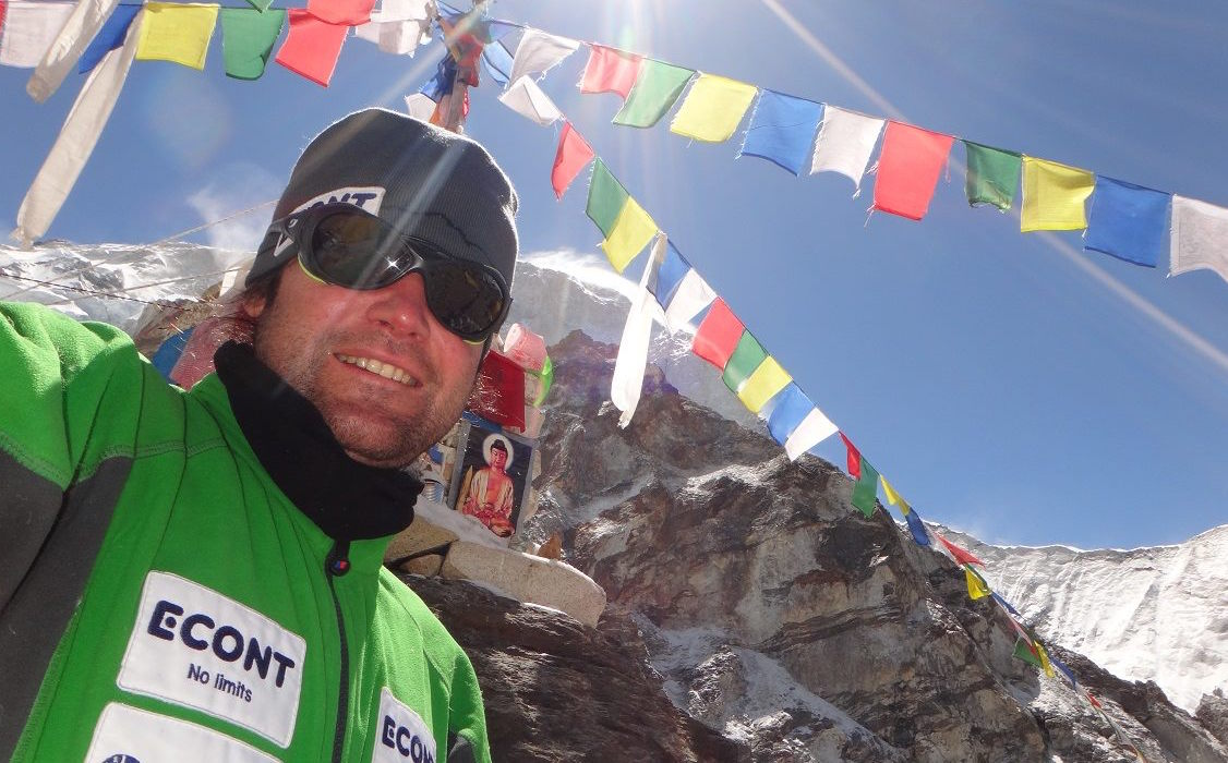 Атанас Скатов, Базов лагер Макалу, 5700 м, 24 май 2016 г.